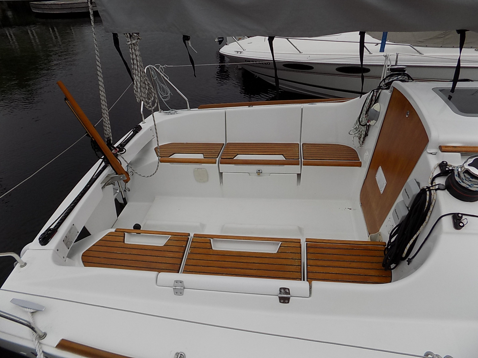 The cockpit of a Beneteau First 25S sailboat named Gracie.